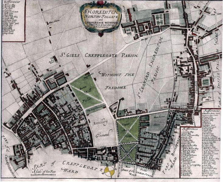 1755 Stow's Map of Shoreditch, Norton Folgate and Cripplegate Without